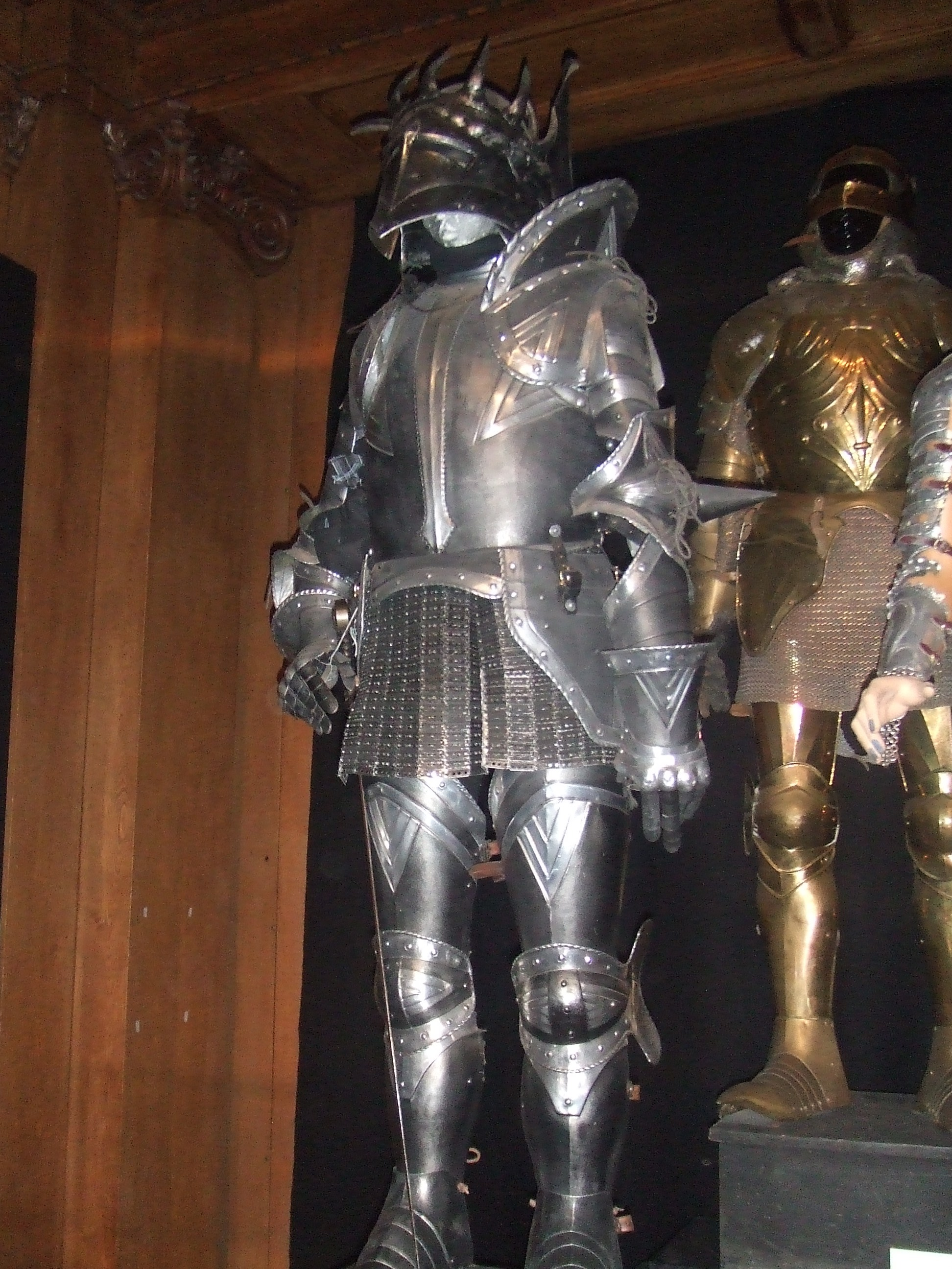 Headless knight armour from the film Harry Potter and the Half-Blood Prince displayed at the London Film Museum.